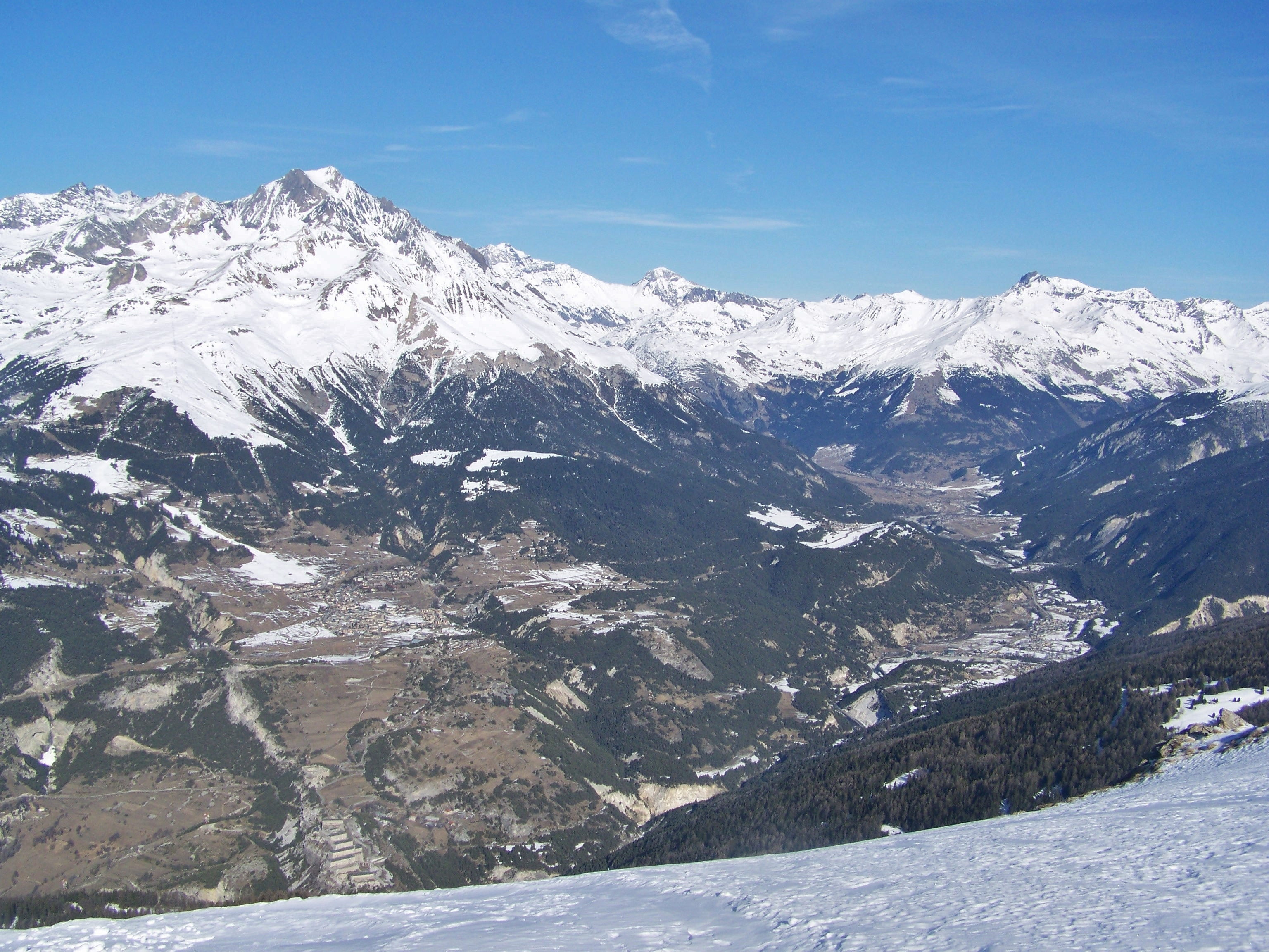 Sight on Haute-Maurienne valley from La Norma ski resort in Savoie, France.